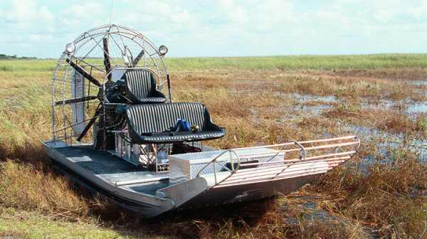 Air boat